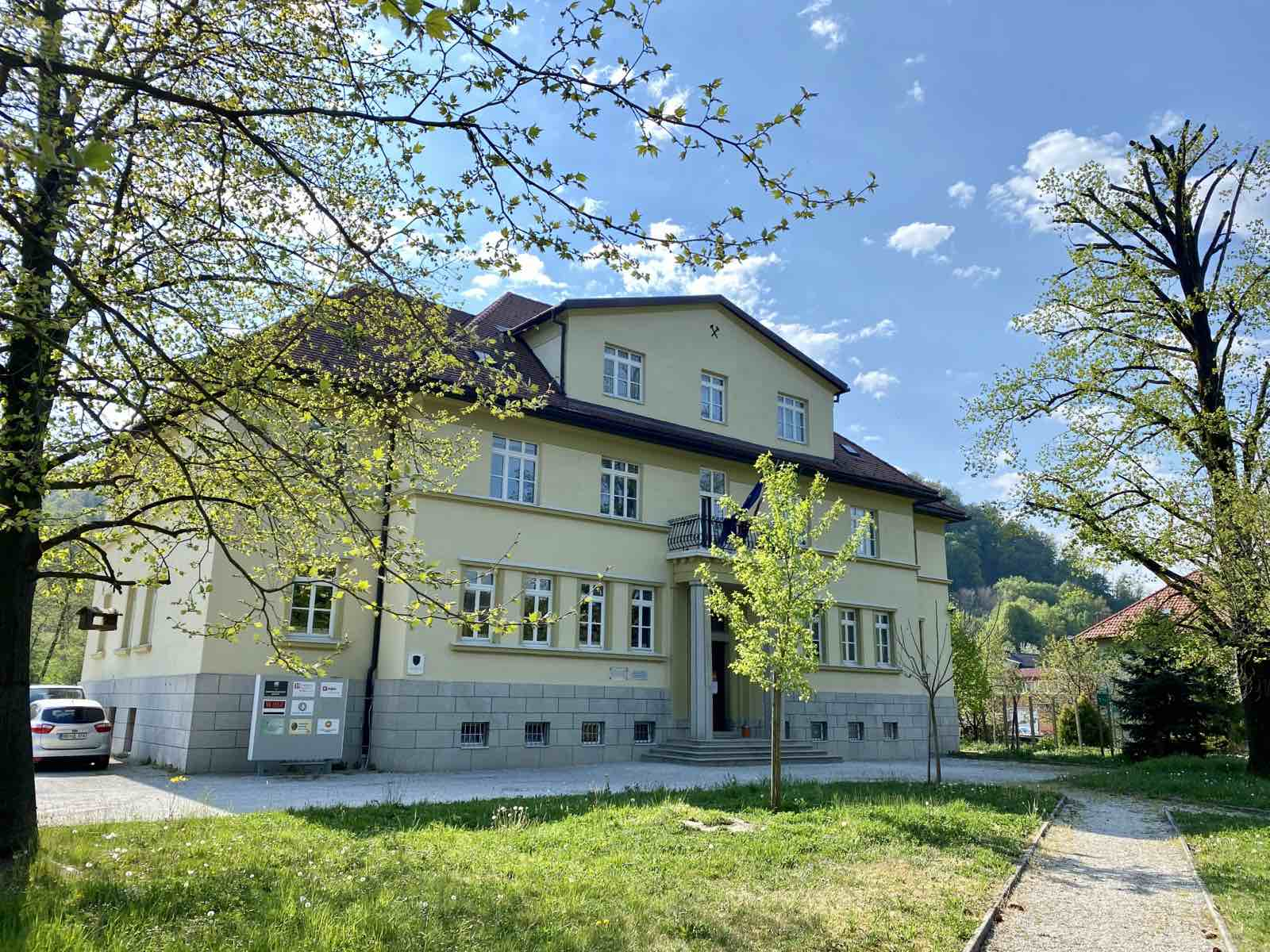 Main buildind of Senovo mine, Slovenia